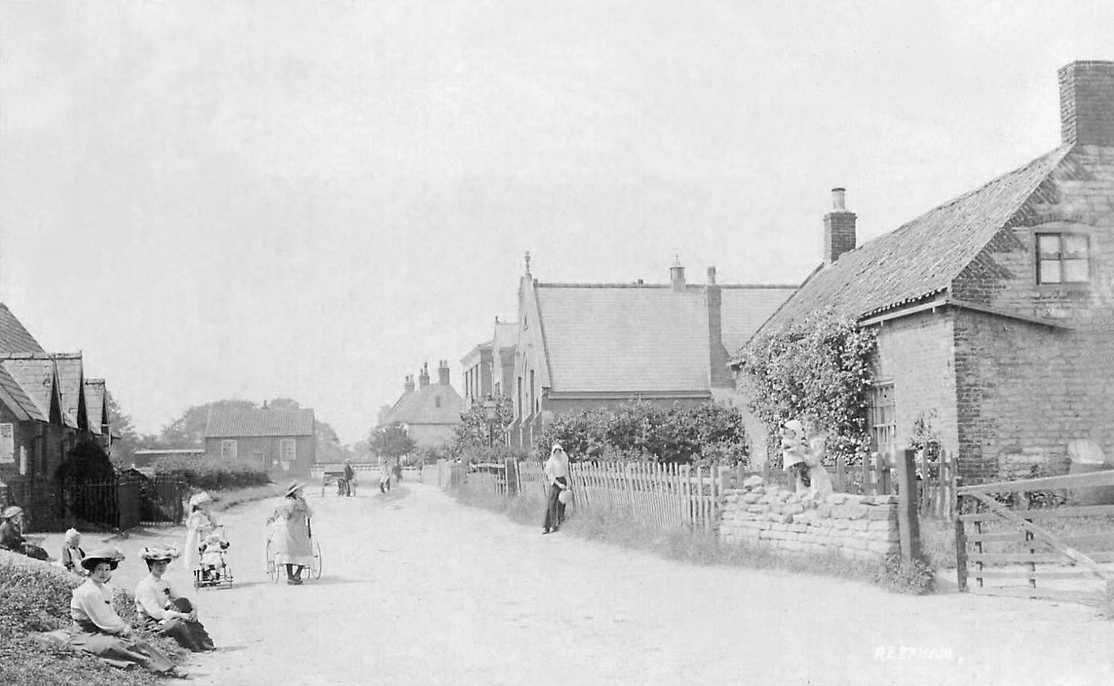 A road through Reepham, nr Lincoln, England dated pre or at 1909 per franked stamp on reverse. No indication of publisher.